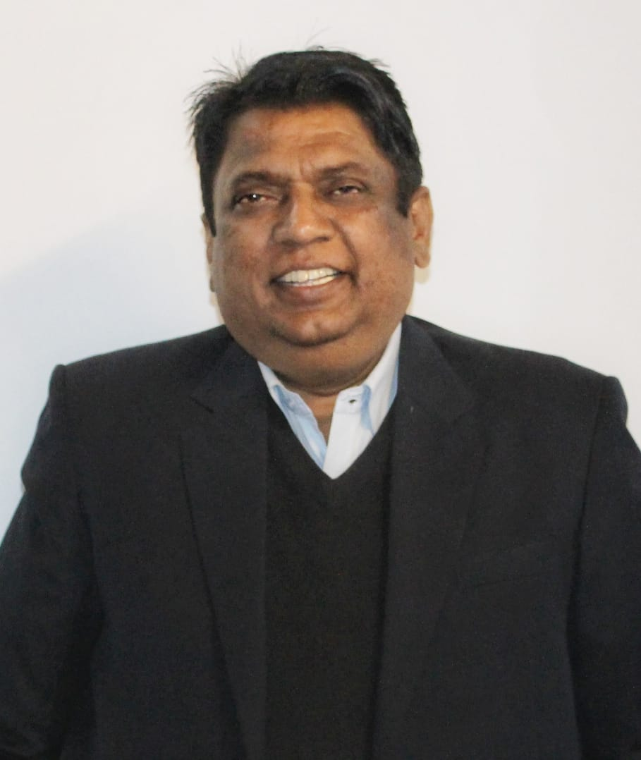 Recent picture of Narayan Pal.